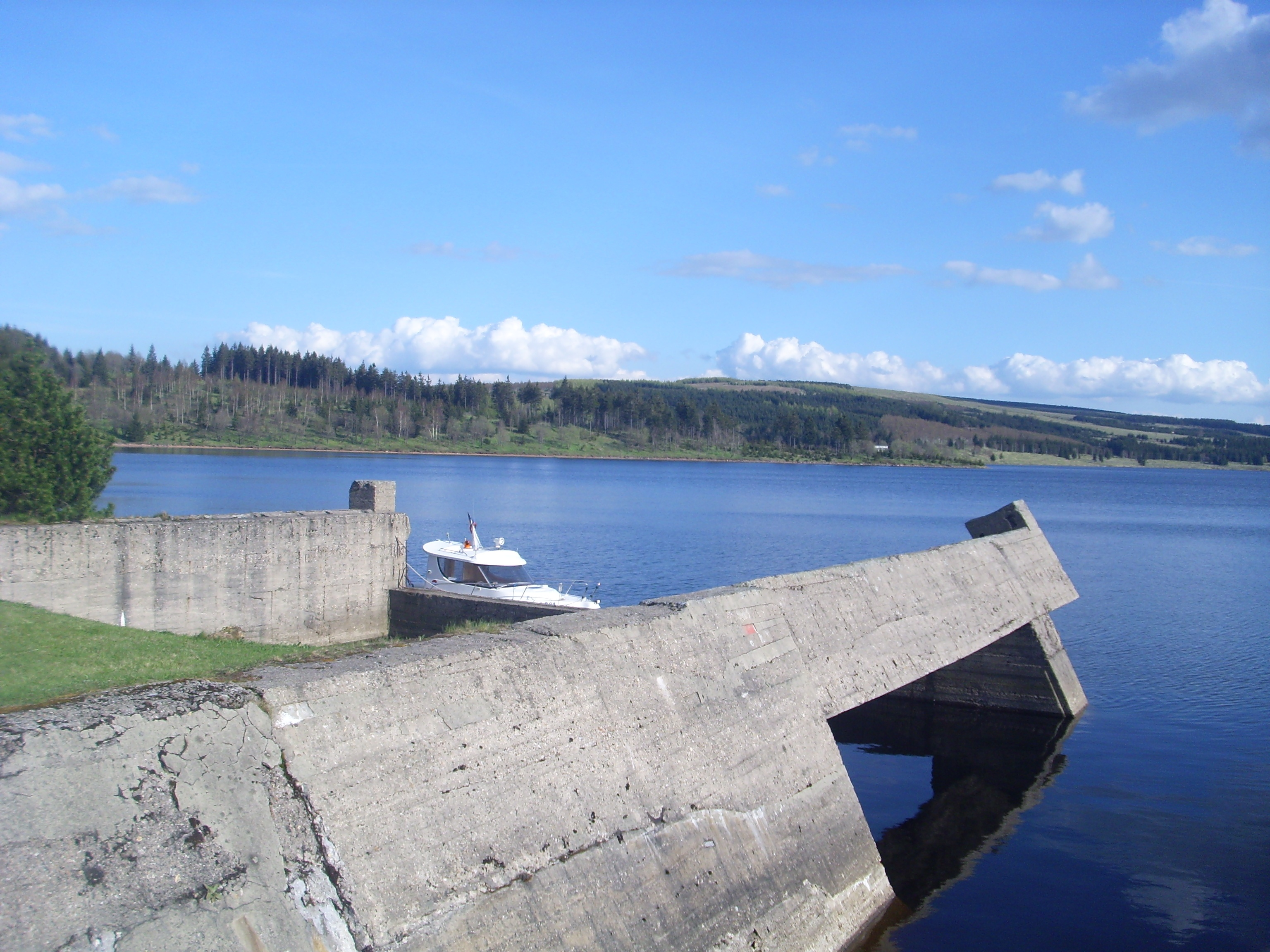 Reservoir Fláje in Ústí nad Labem Region Czech Republic